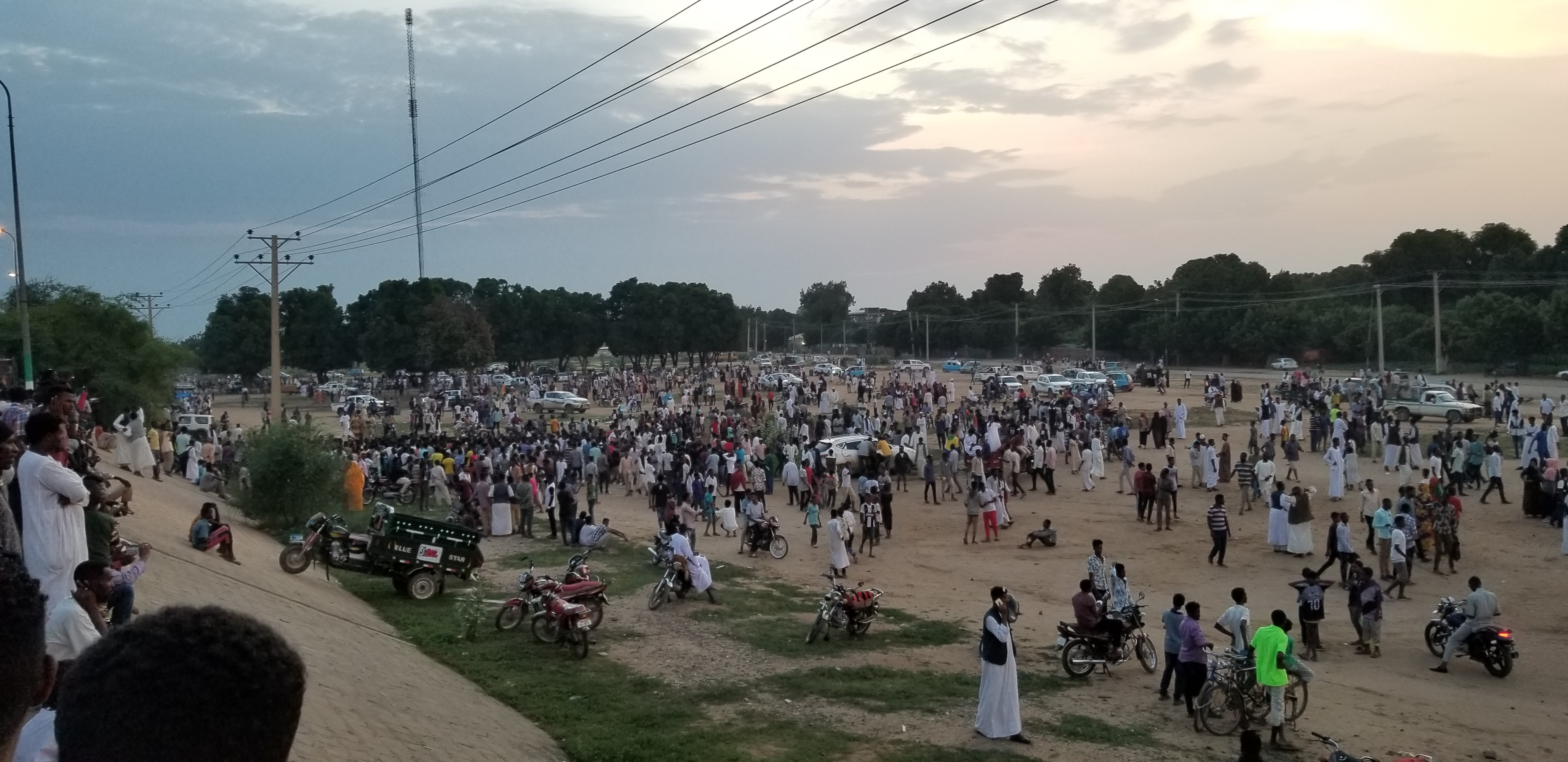 people celebrating by historic agreement between opposition and military after president al BASHIR gone This is an image with the theme "Africa on the Move or Transport" from: Sudan